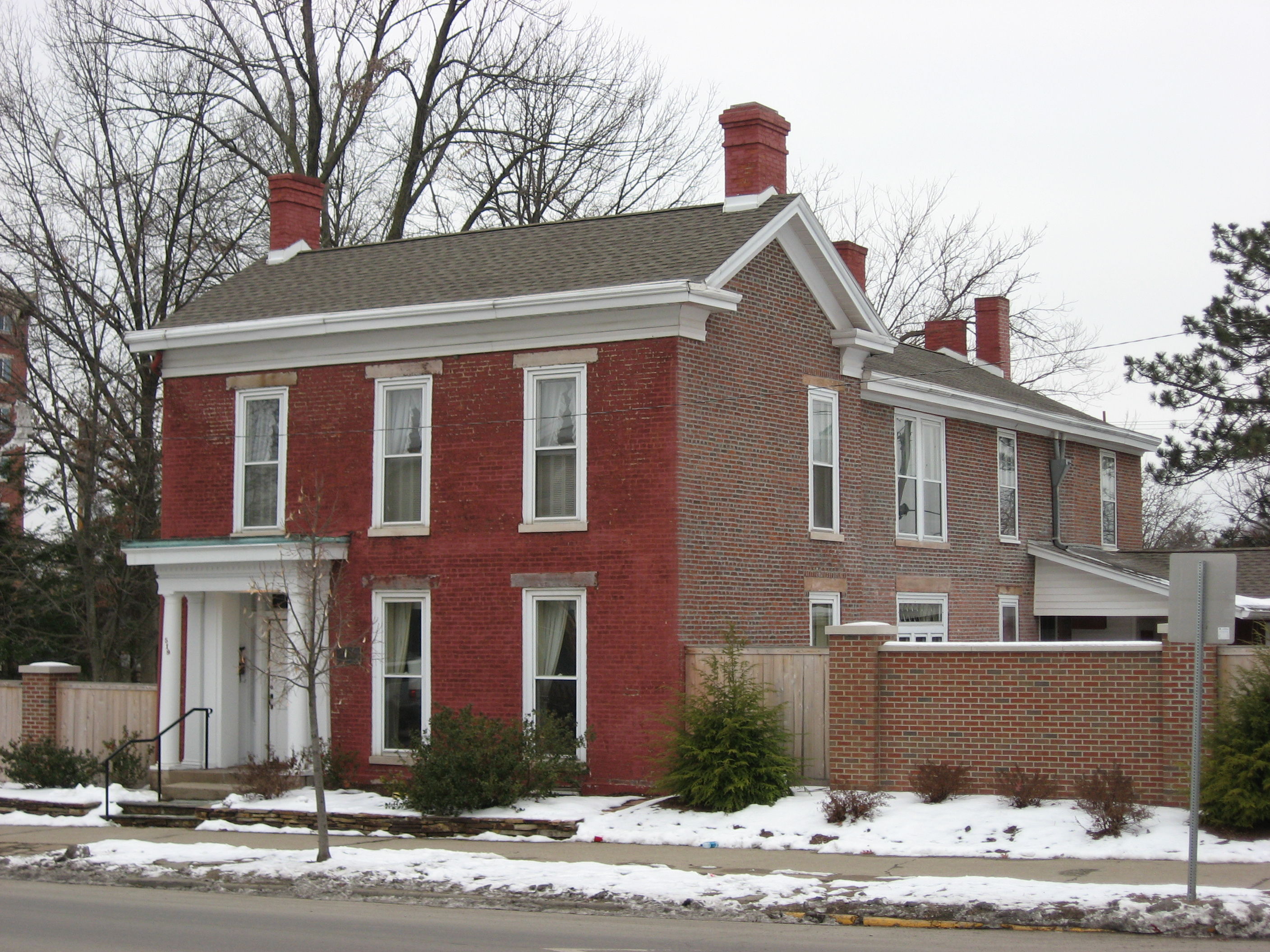 Front of the Woodburn House, located at 519 N. College Avenue in Bloomington, Indiana, United States. Once the home of Herman B Wells and now a guest house owned by Indiana University, it was built in 1829.